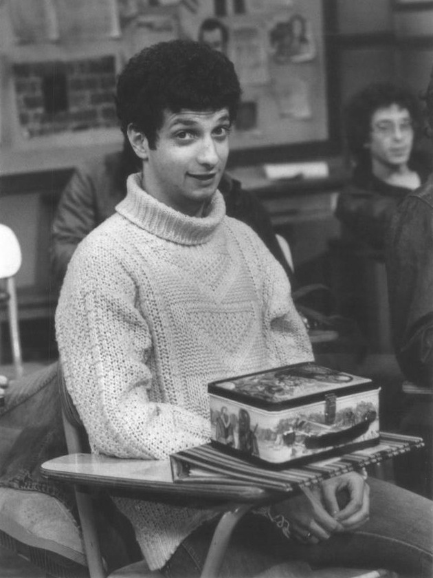 Publicity photo of American actor Ron Palillo promoting his role on the ABC television series Welcome Back, Kotter.